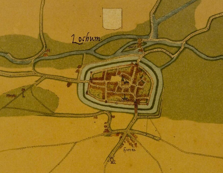 Citymap of Lochem ca. 1560